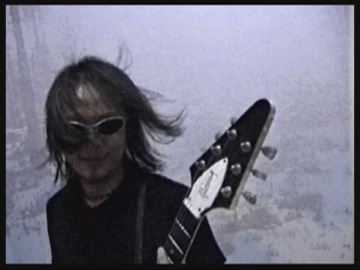 Indonesian guitarist wearing shades, snow-filled background with trees.